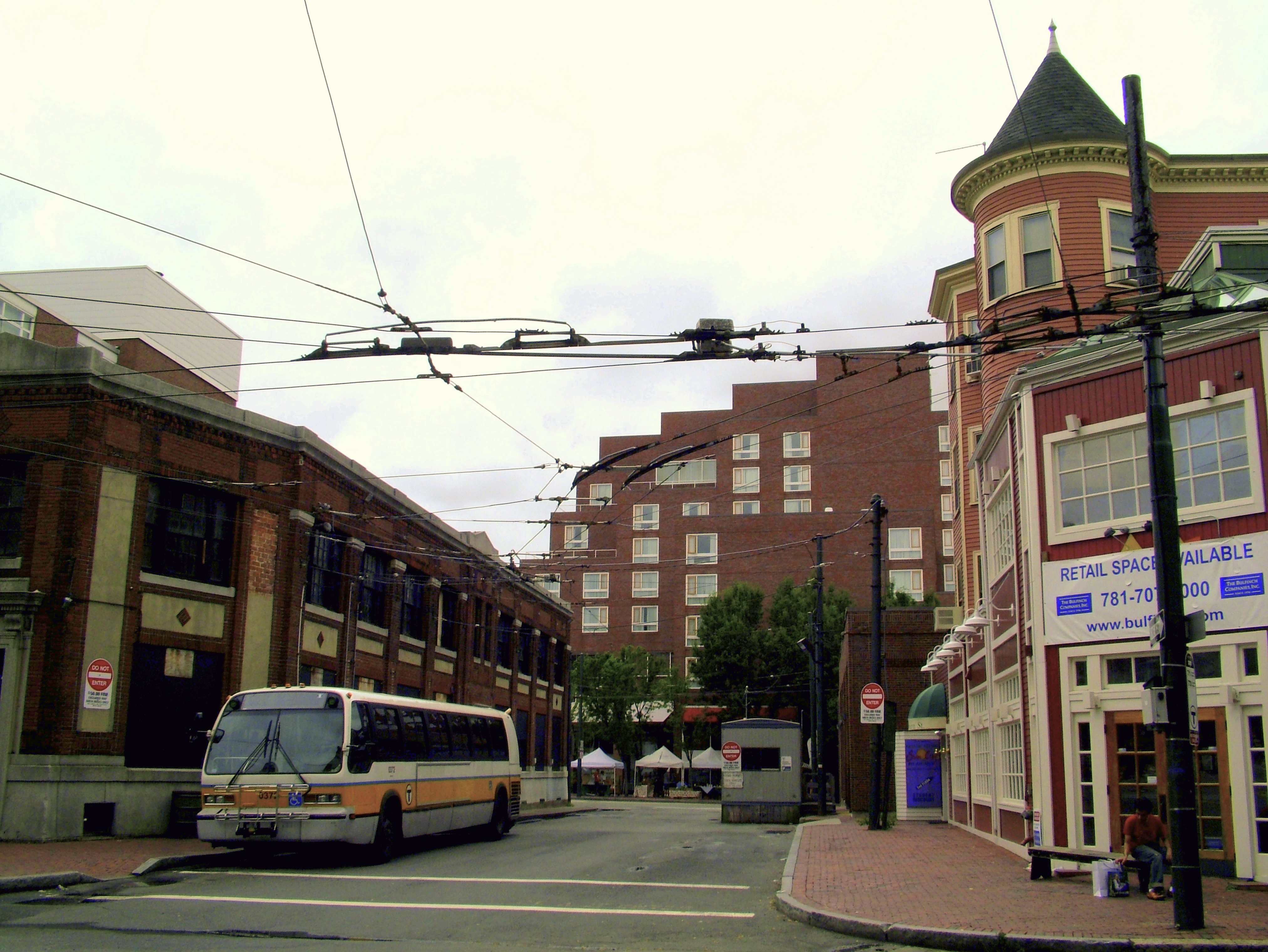 An RTS bus owned by the MBTA in Bennett Alley in July 2006